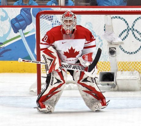 Canadian goaltender Martin Brodeur didn't have very long to rest, unlike teammate Roberto Luongo in the last game against Norway. The Swiss put up a good fight, testing Brodeur's skills, but in the end, Canada prevailed and defeated Switzerland 3 - 2.